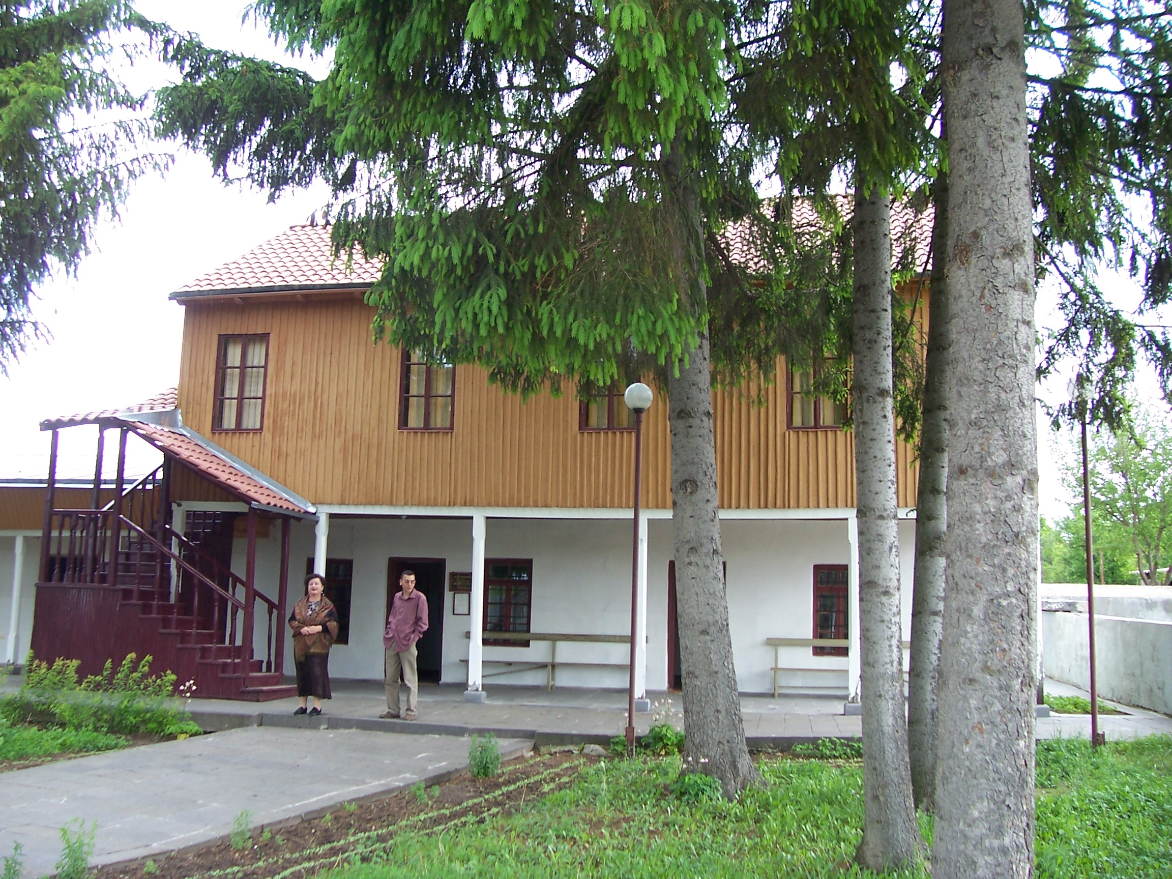 House-Museum of Hovhannes Tumanian in Dsegh